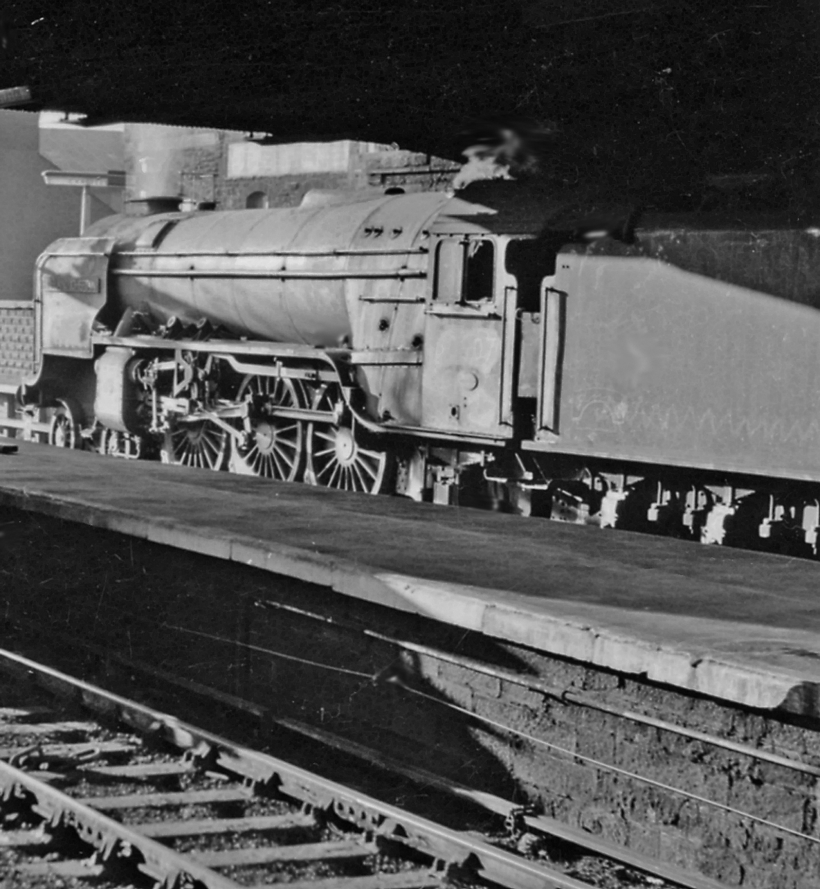 Waverley Route trains at Carlisle. View northward from the north end of Carlisle Citadel station - major centre where seven pre-Grouping Railways came together. Here the 18.22 local from Langholm with LMS Ivatt 4MT 2-6-0 No. 43139 (built 7/51, withdrawn 9/67) is arriving as LNE Thompson A2/1 Pacific No. 60507 'Highland Chieftain' (built 5/44 as No. 3696, withdrawn 12/60) waits to leave on the 19.44 semi-fast to Edinburgh Waverley.